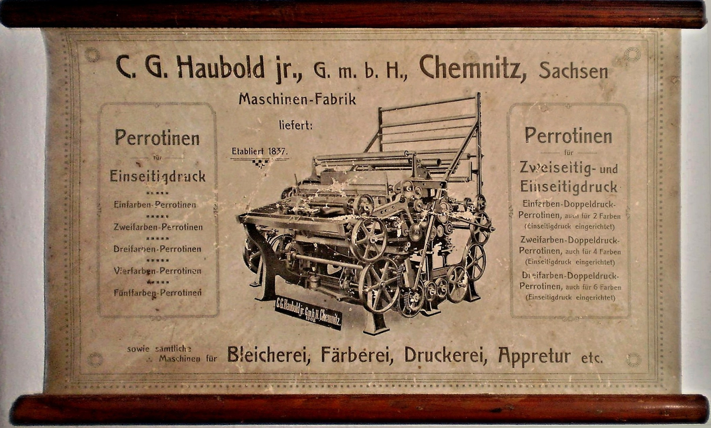 Perrotine-press, Kékfestő múzeum, Pápa, Hungary